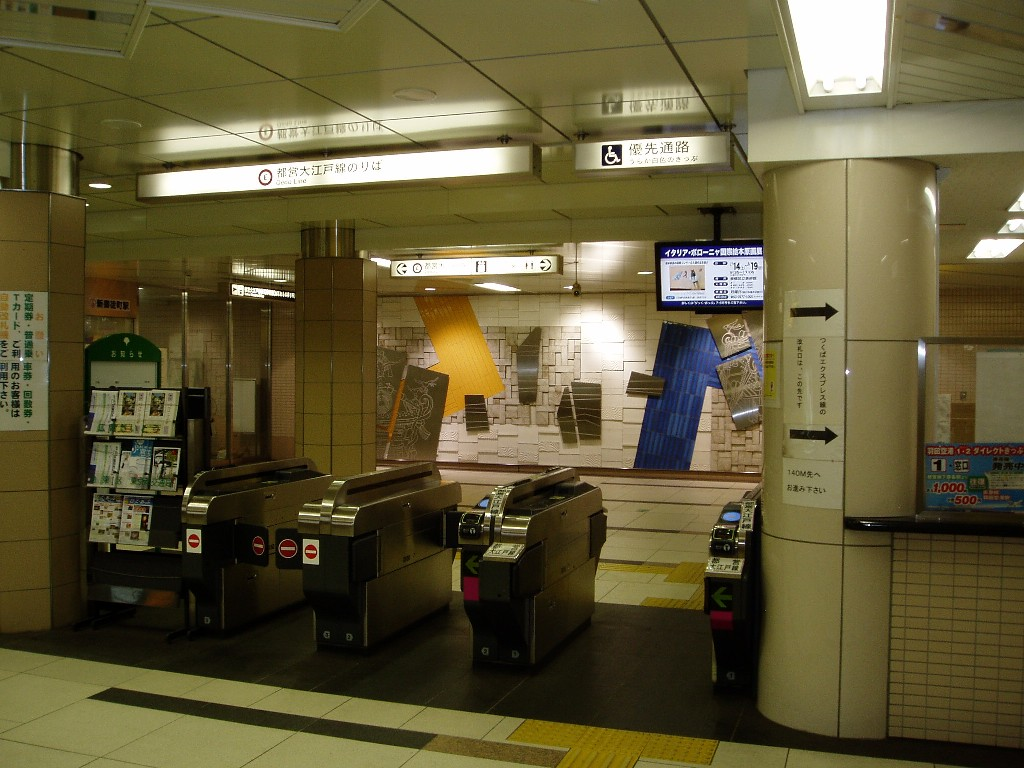 Oedo Line Ticket gate in Shin-Okachimachi Station